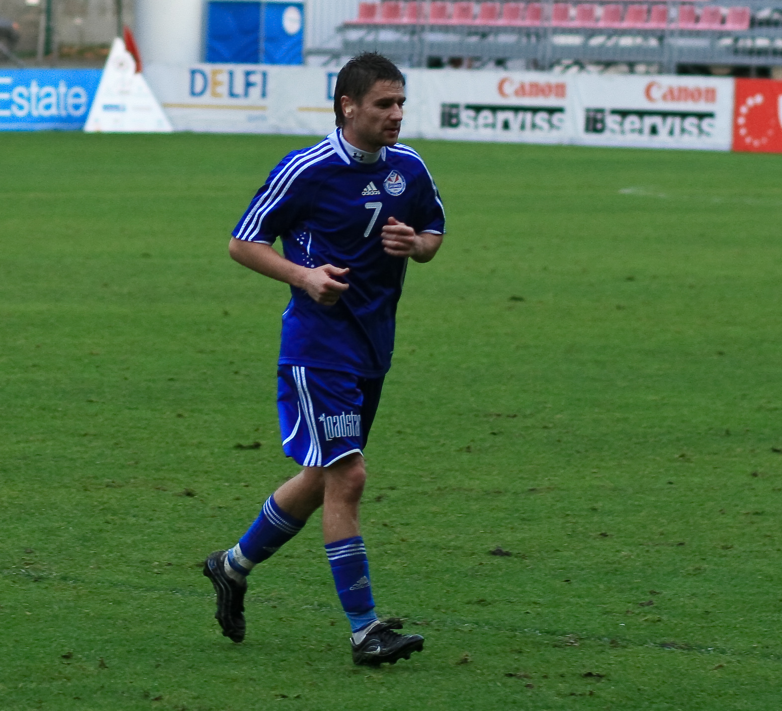 Marian Pahars, Latvian football player